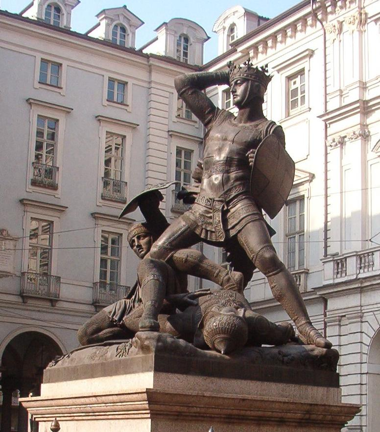 Cropped version of File:Statua al Conte Verde.jpg